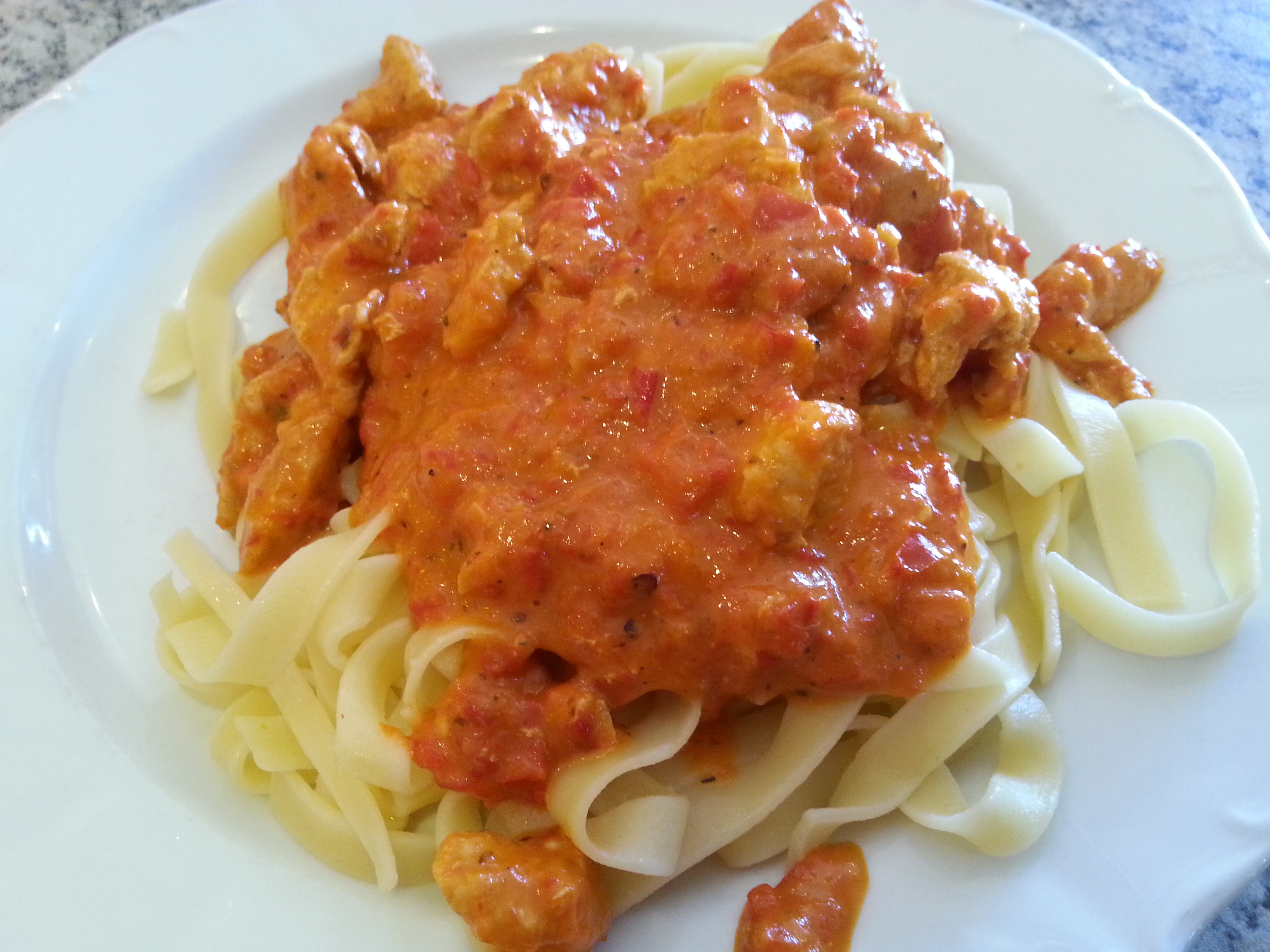 Chicken paprikash